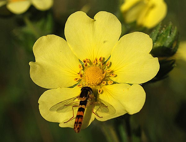 Hohes Fingerkraut (Potentilla recta)